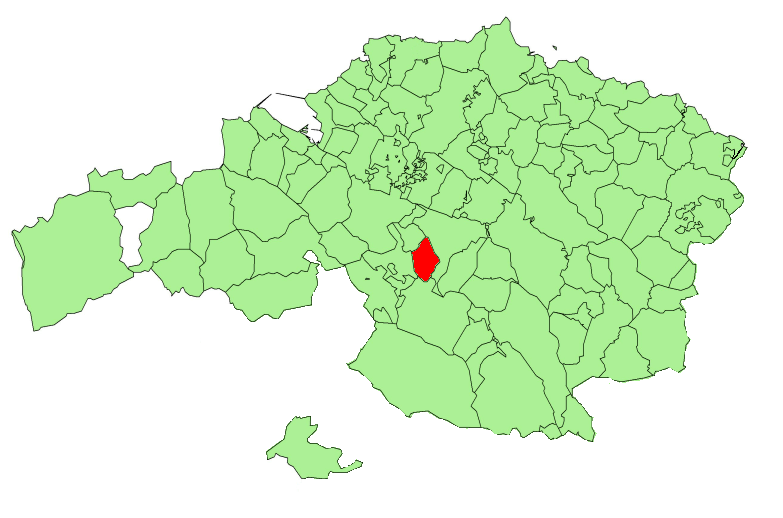 Zaratamo municipality in the province of Biscay